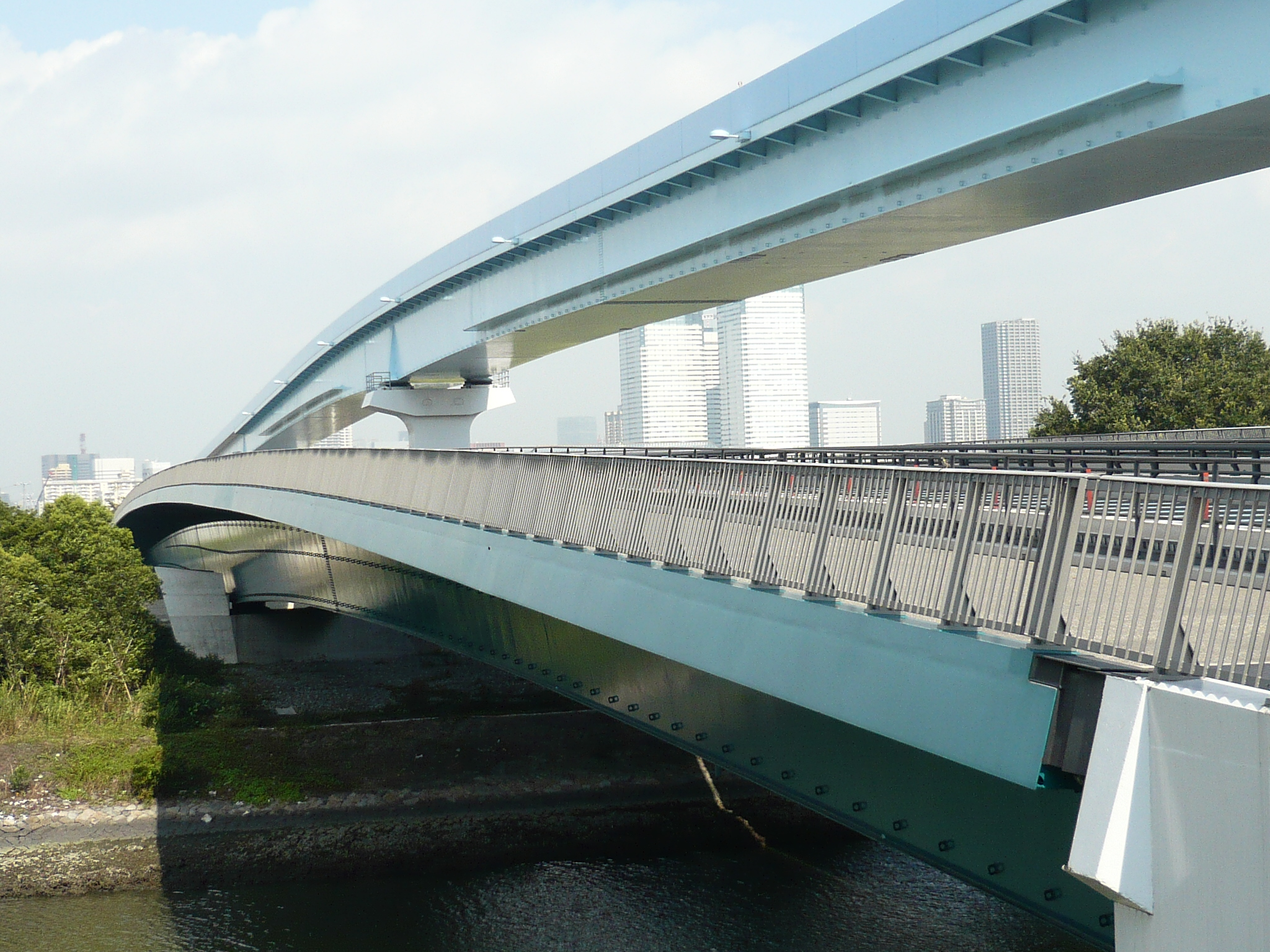 Ariake North Bridge(有明北橋) in Koto-ku,Tokyo,Japan.